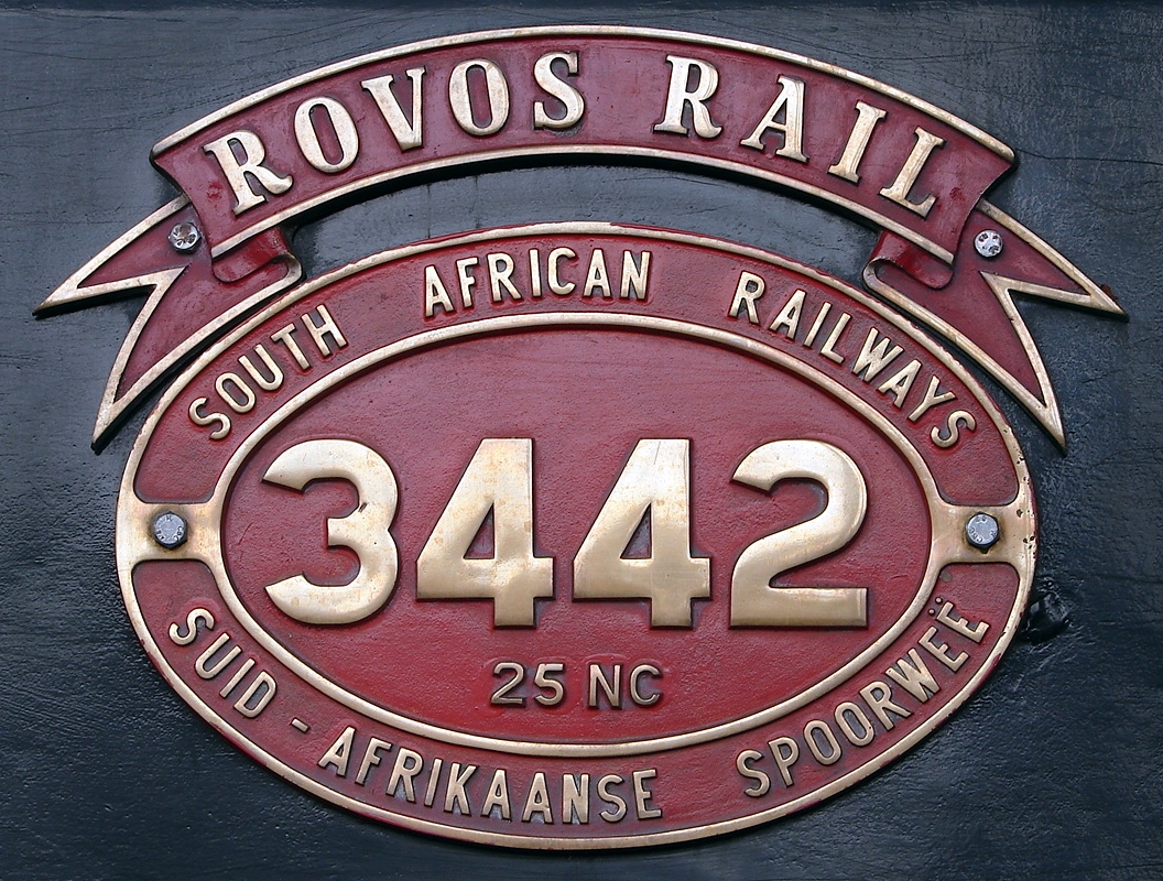 SAR Class 25NC 3442 (4-8-4) number plate Builder's Number: Henschel 28761 Type: Non condensing Location: Capital Park, Pretoria, Gauteng